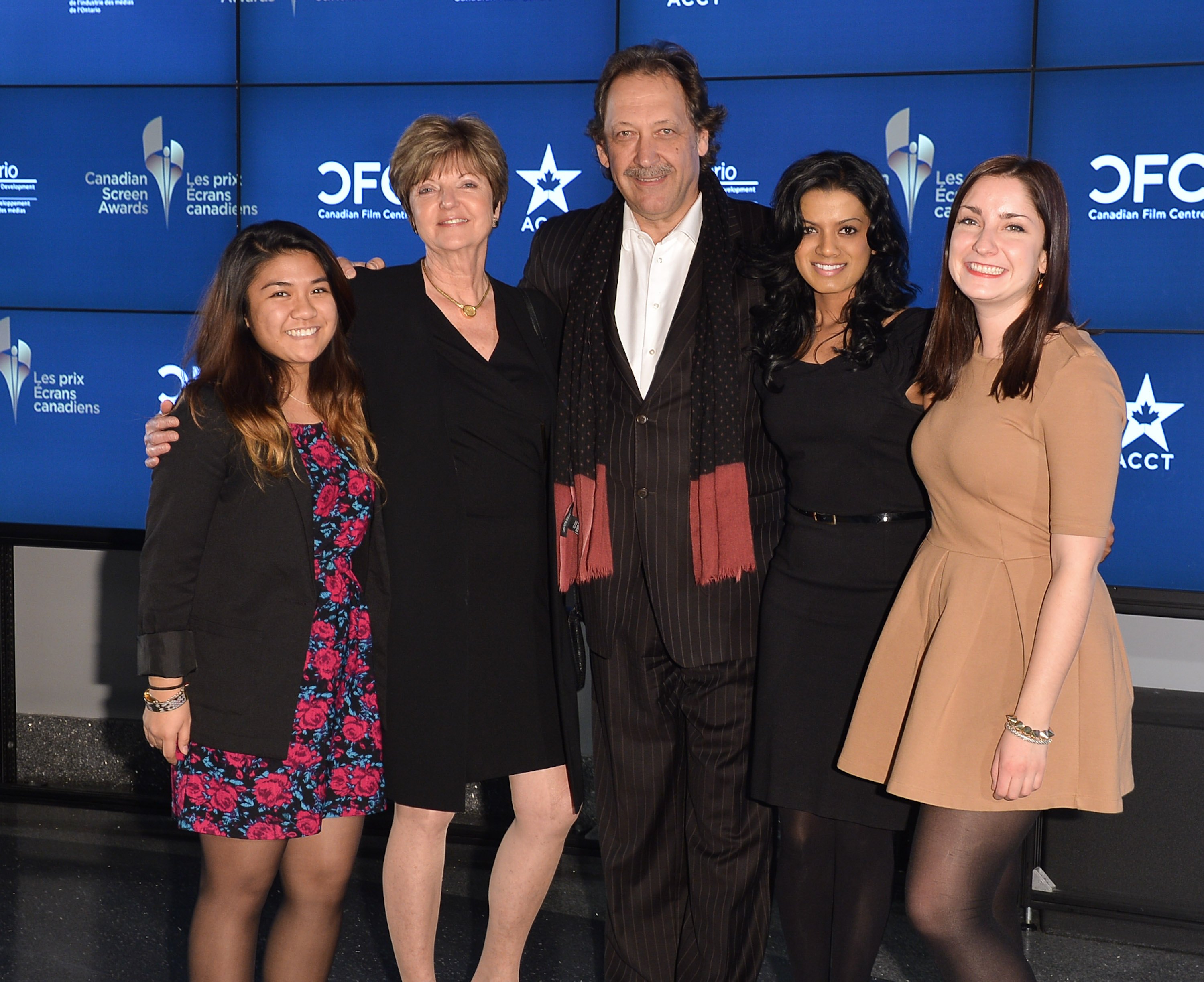 Slawko Klymkiw, CFC's Chief Executive Officer with CFC Development team members Frances Lorenzo, Director of Development Tina Vanderheyden, Development Coordinator Sara Seida and Hilary Hart. On March 1, 2013, the CFC, in support of the The Academy of Canadian Cinema & Television (Academy), celebrated Canadian talent at the Canadian Screen Awards Nominee Reception. Academy's new Canadian Screen Awards recognize excellence in film, television and digital media productions. This marked the inaugural year for the Canadian Screen Awards.